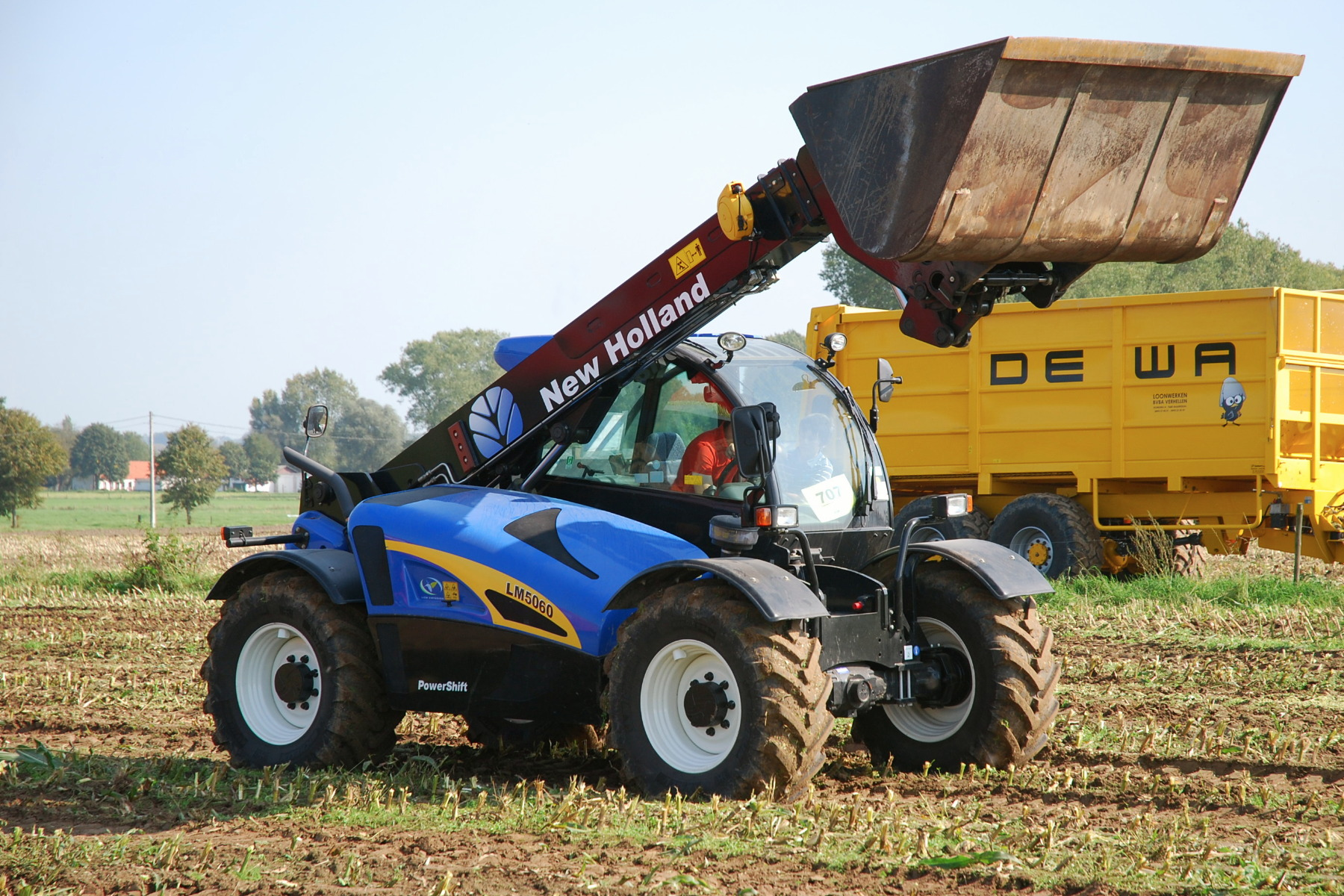 A New Holland LM5060 telescopic handler, a DEWA silage wagon in the background; Werktuigendagen 2011, Oudenaarde, East Flanders, Belgium.